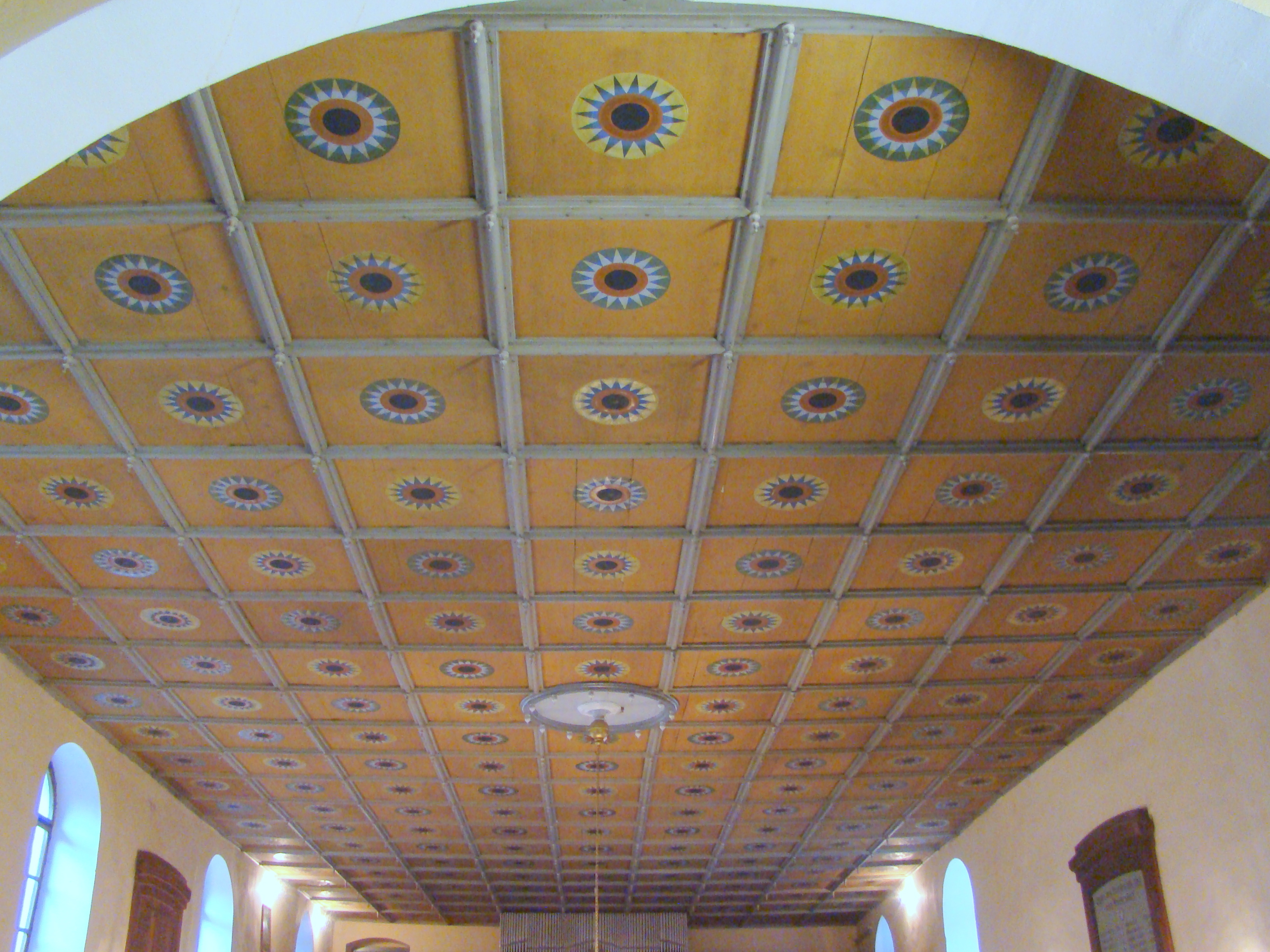 Fortified church in Vulcan, Brașov County, Romania